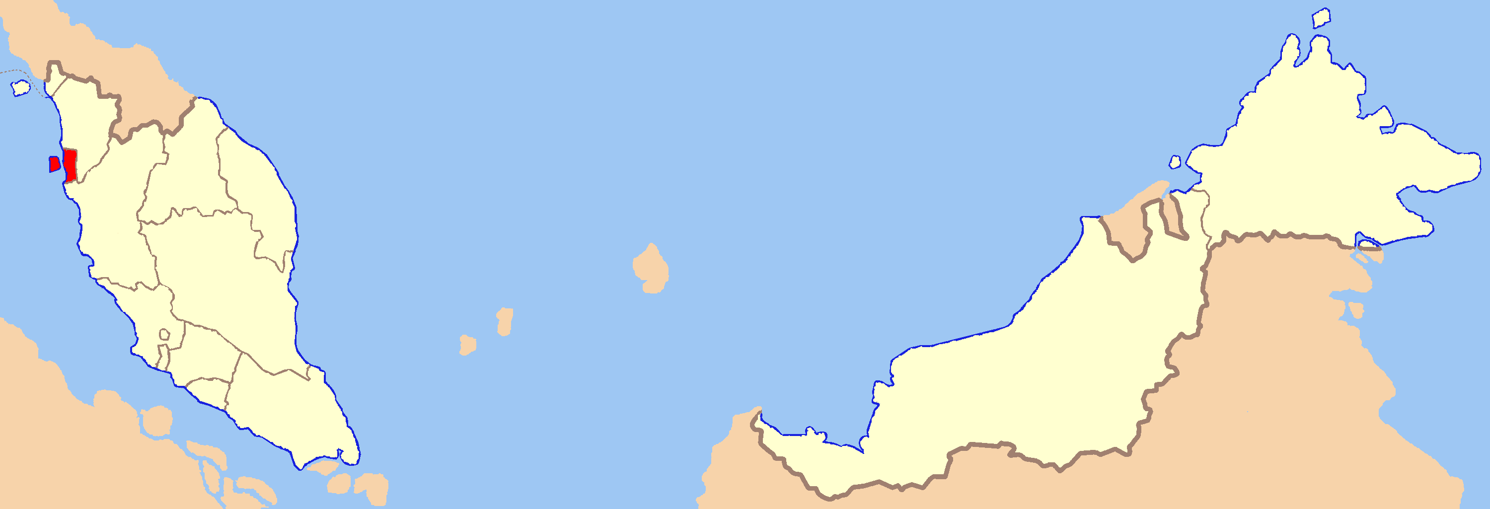 Map of Malaysia with Penang state highlighted